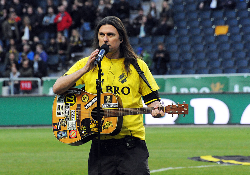 AIK-trubaduren playing and singing before AIK-Helsingborg, 2014